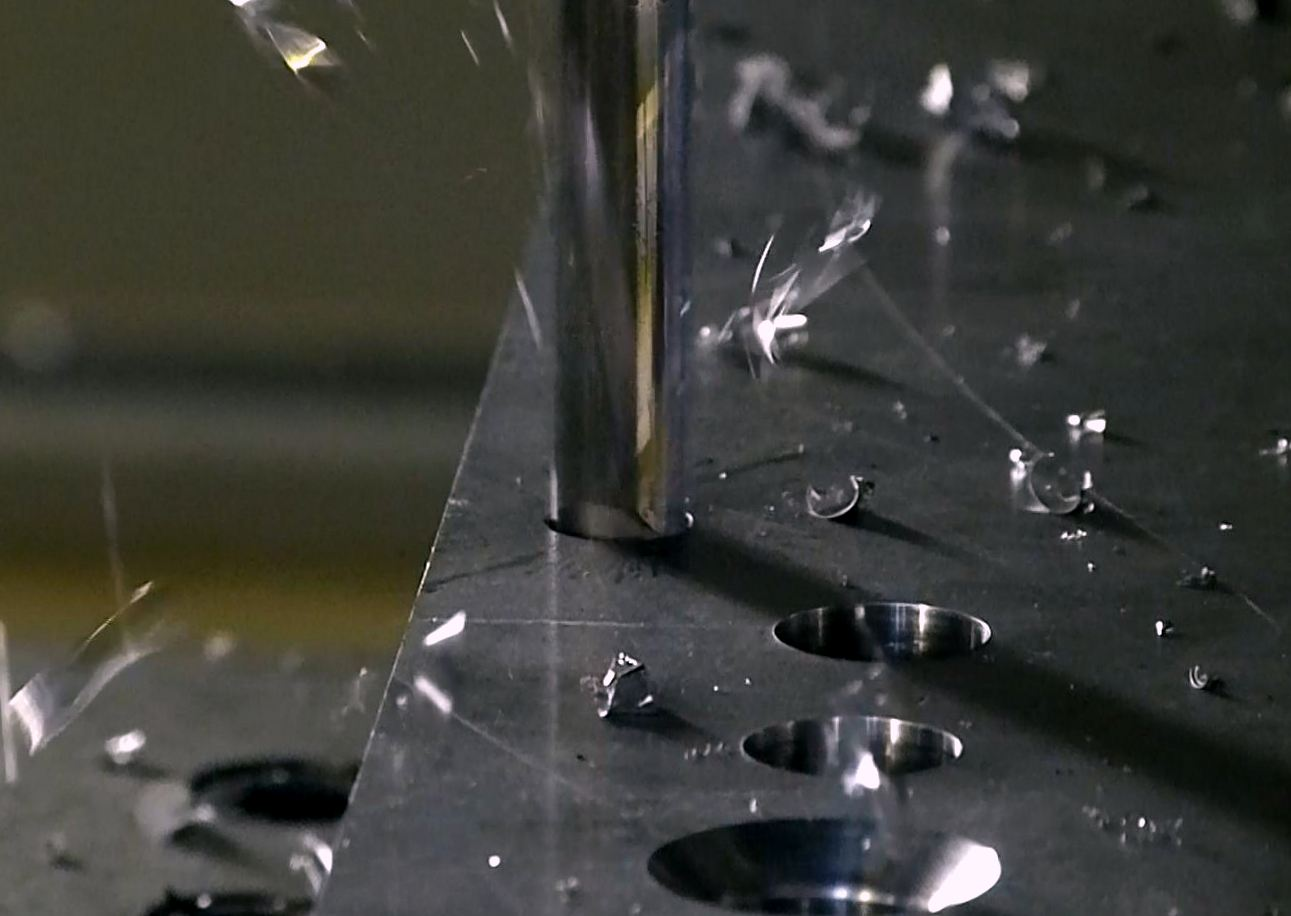 dry drilling of titanium - MITIS SineHoling technology